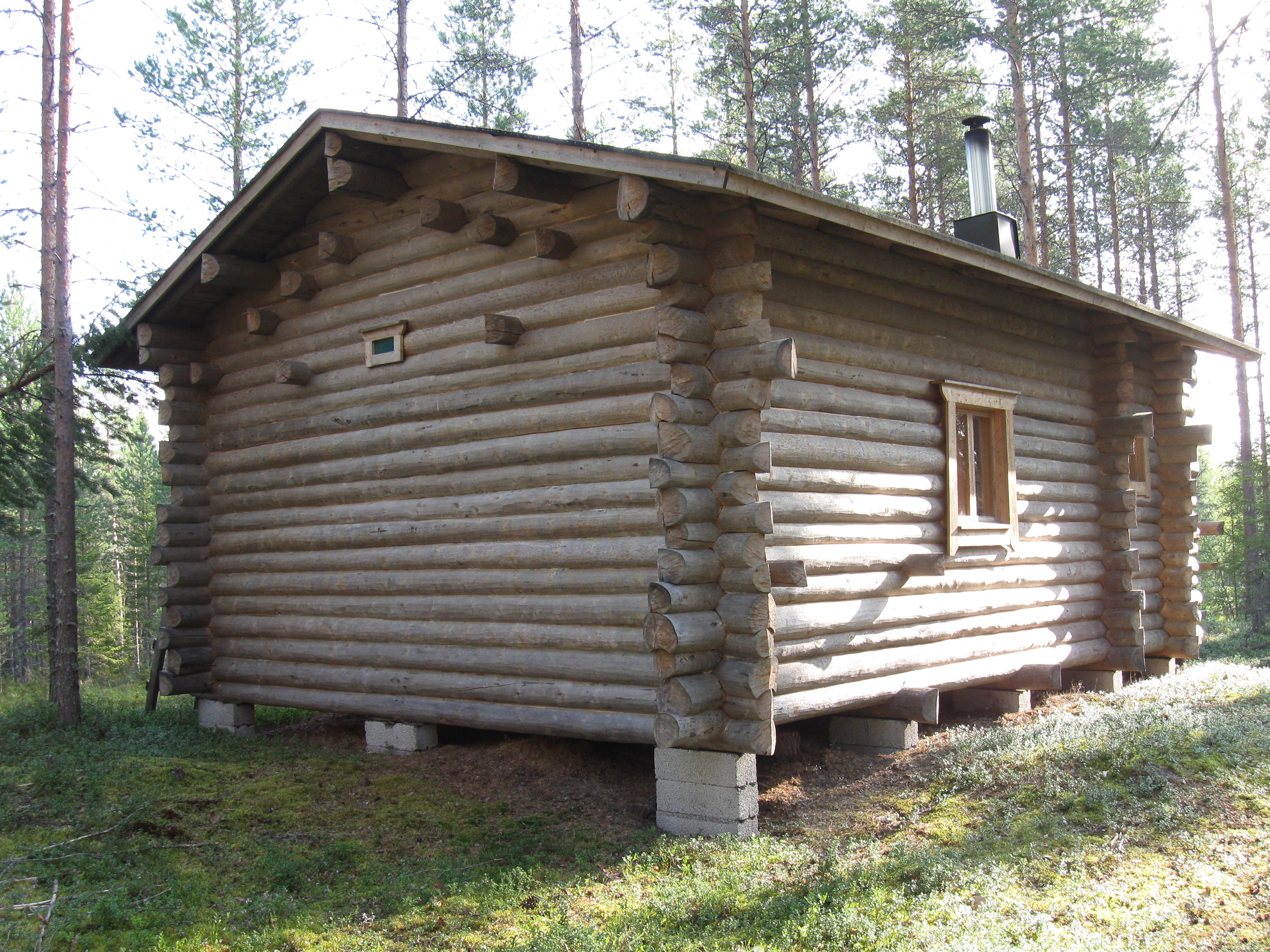 An open wilderness hut in Saunakangas, Piltuanjoki river in Pudasjärvi, Finland.